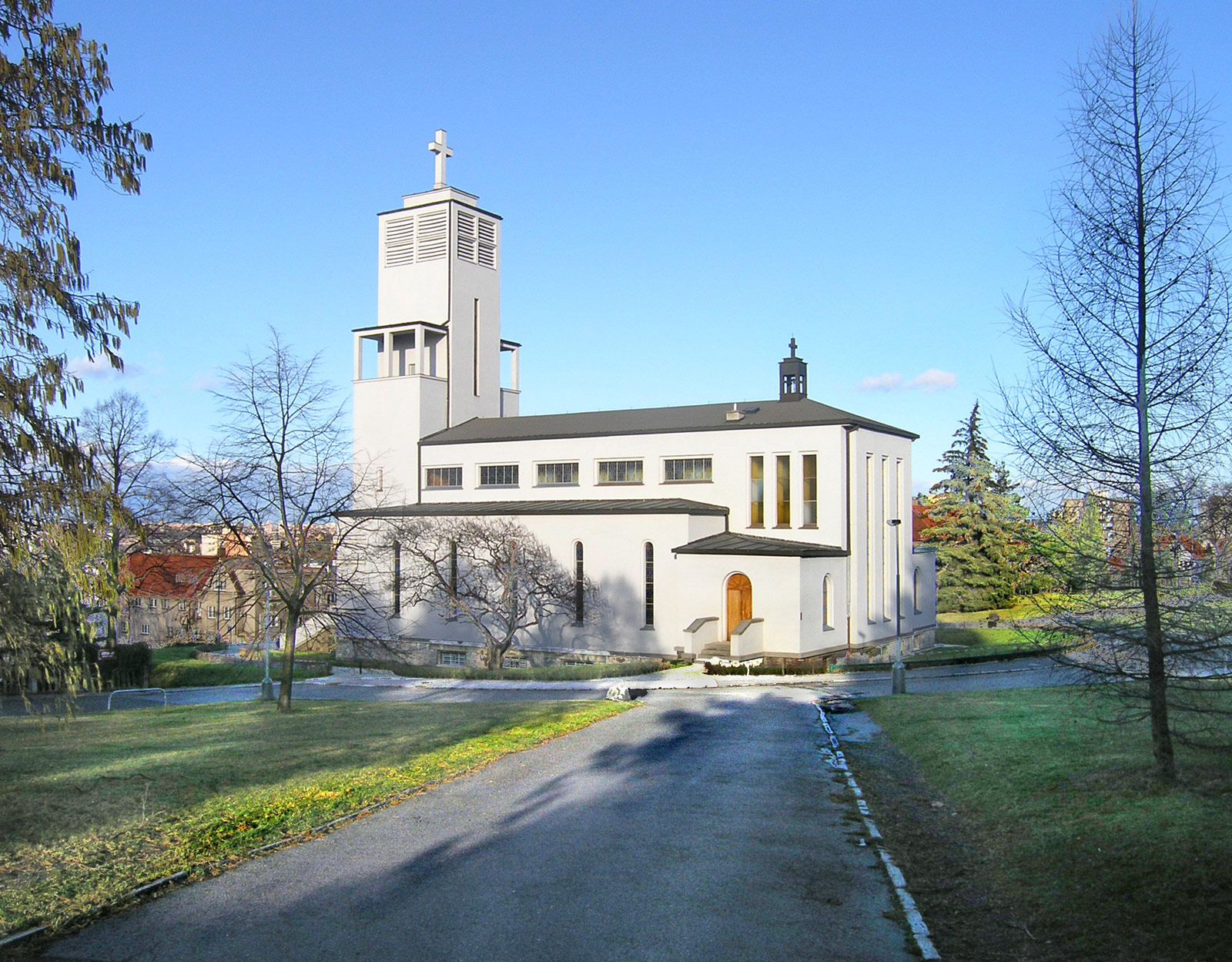 Church of St Agnes of Bohemia in Roztylské square at Spořilov, Prague